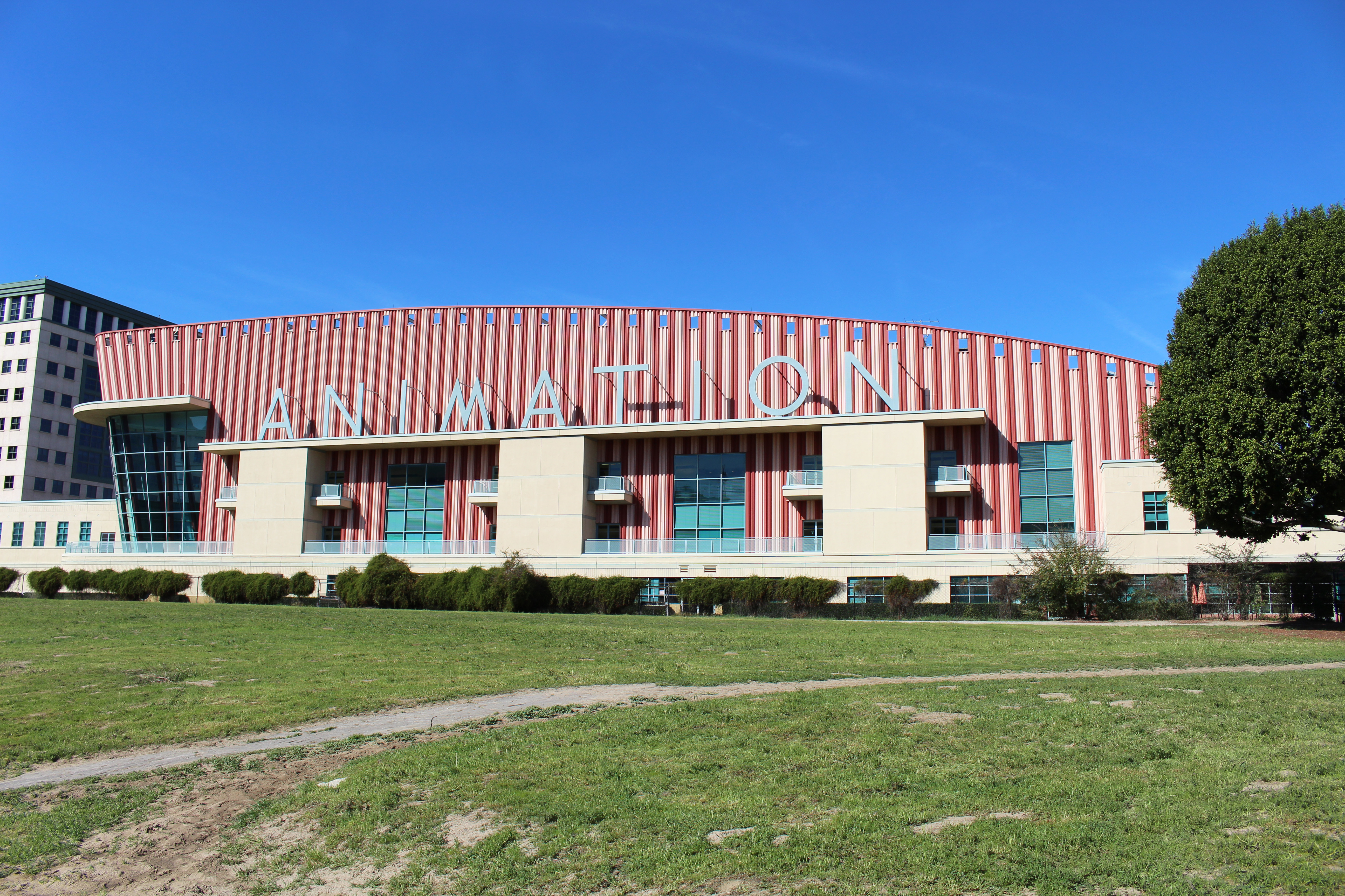 The south side of the Roy E. Disney Animation Building in Burbank, California, facing a public park which separates the building from the Ventura Freeway (California State Route 134). This building, at the time this photograph was taken, was home to Walt Disney Animation Studios. Photographed on February 1, 2015 by user Coolcaesar.